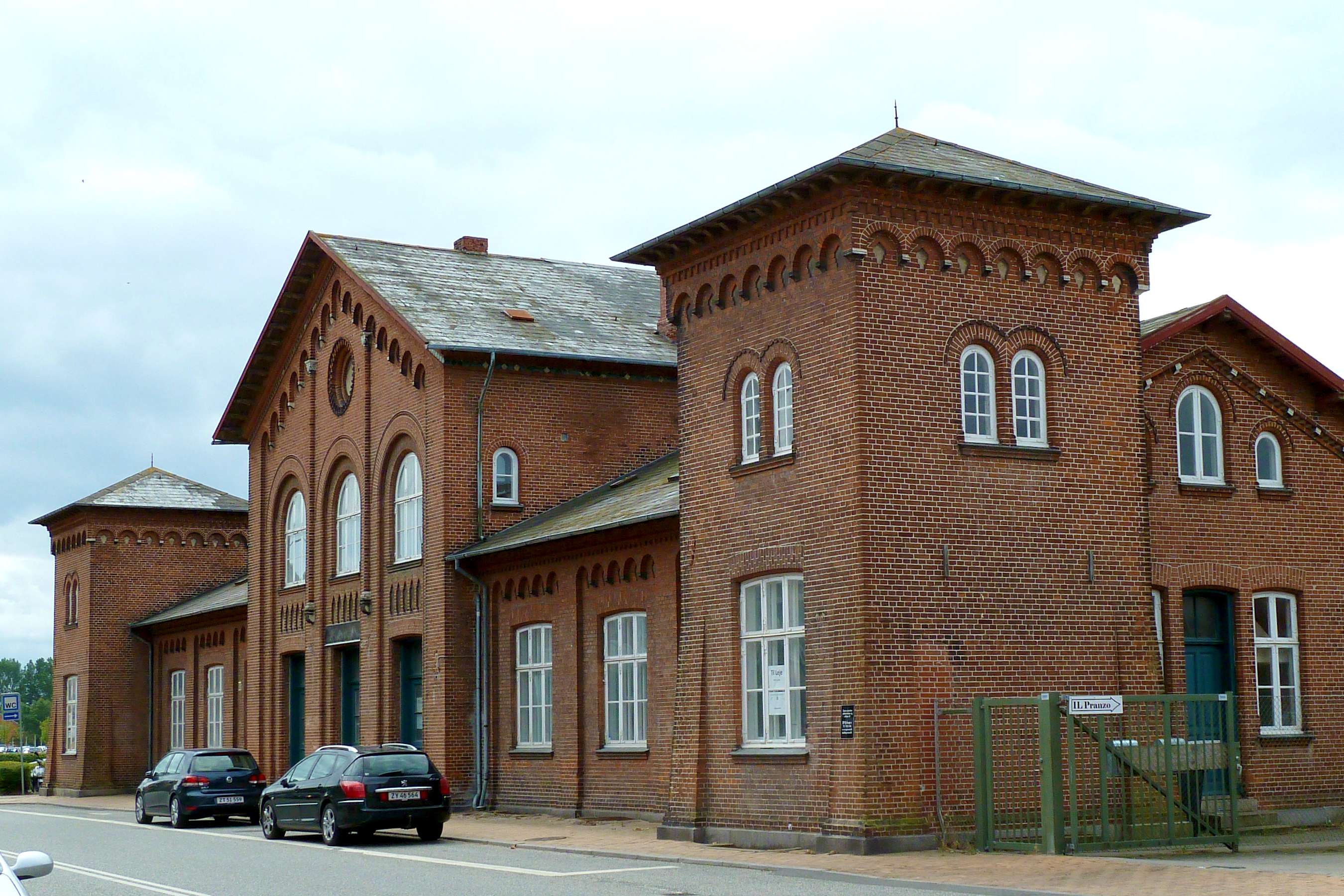 Assens railway station in Assens, Fyn Denmark